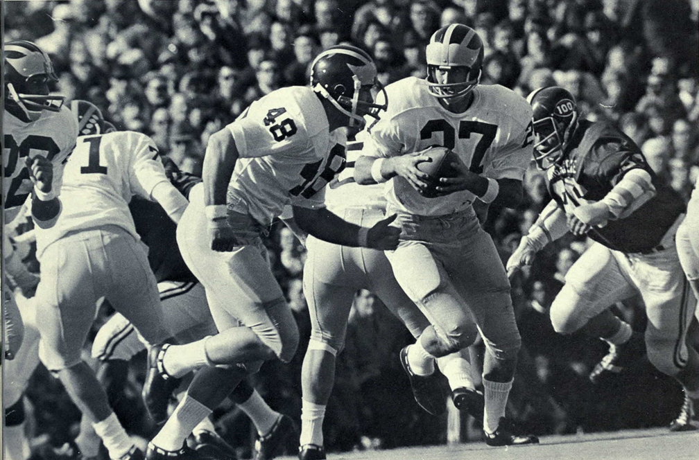 Photograph of Garvie Craw and Don Moorhead